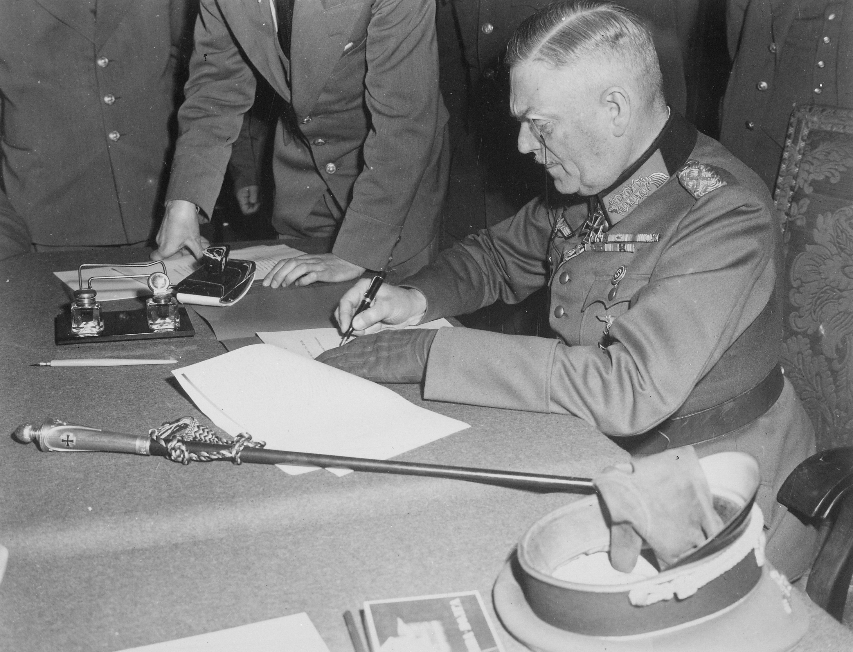 Field Marshall Wilhelm Keitel, signing the ratified surrender terms for the German Army at Russian Headquarters in Berlin. Germany, May 7, 1945.